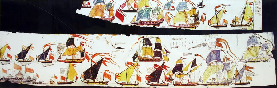 A painted scroll showing Gurab, Galbat and other types of warships of the Maratha Navy. In the lower part of the scroll are shown the ships of the Maratha navy and some captured English ships.